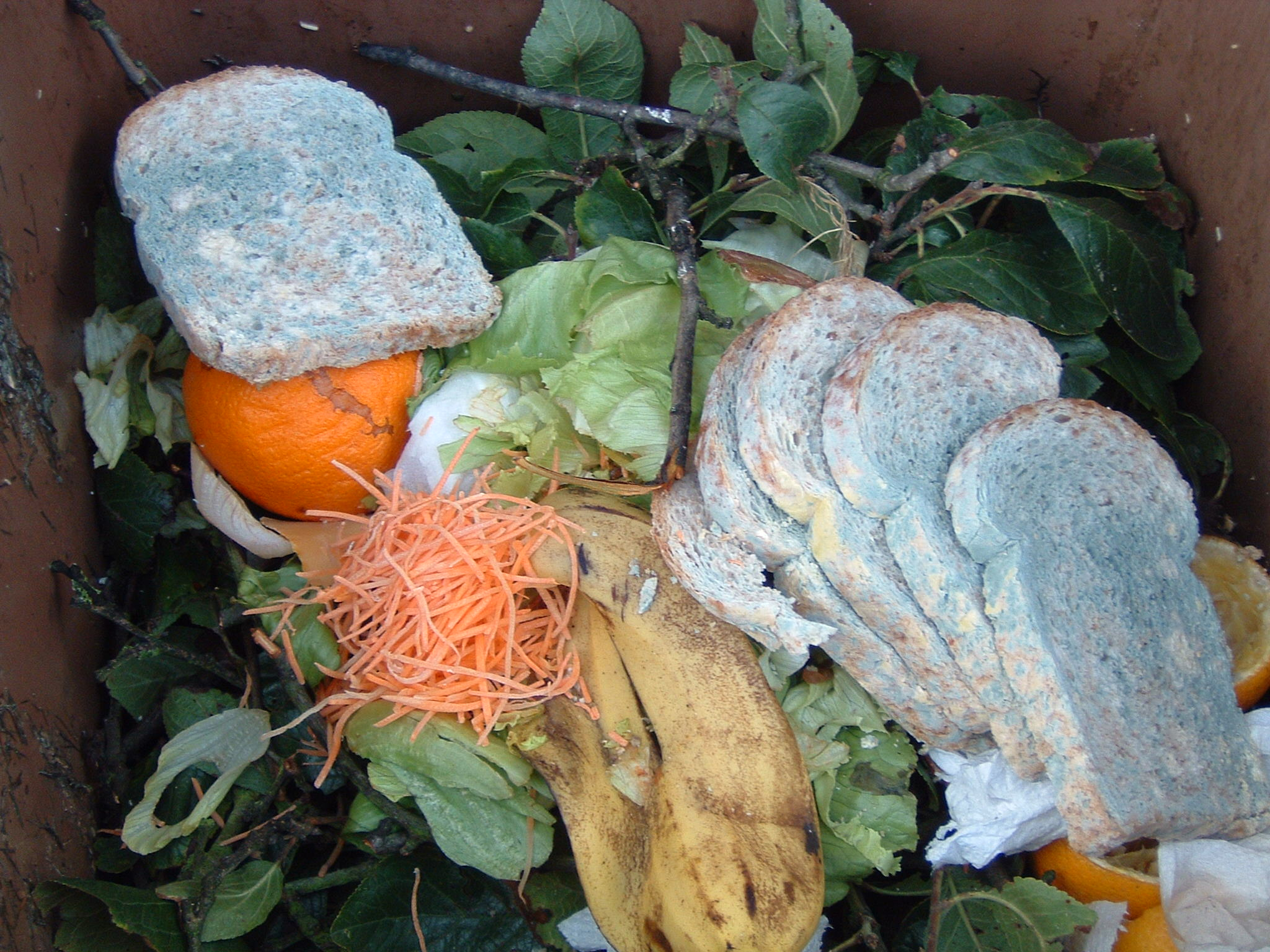 Own photograph. Mold on bread lying in a dustbin.